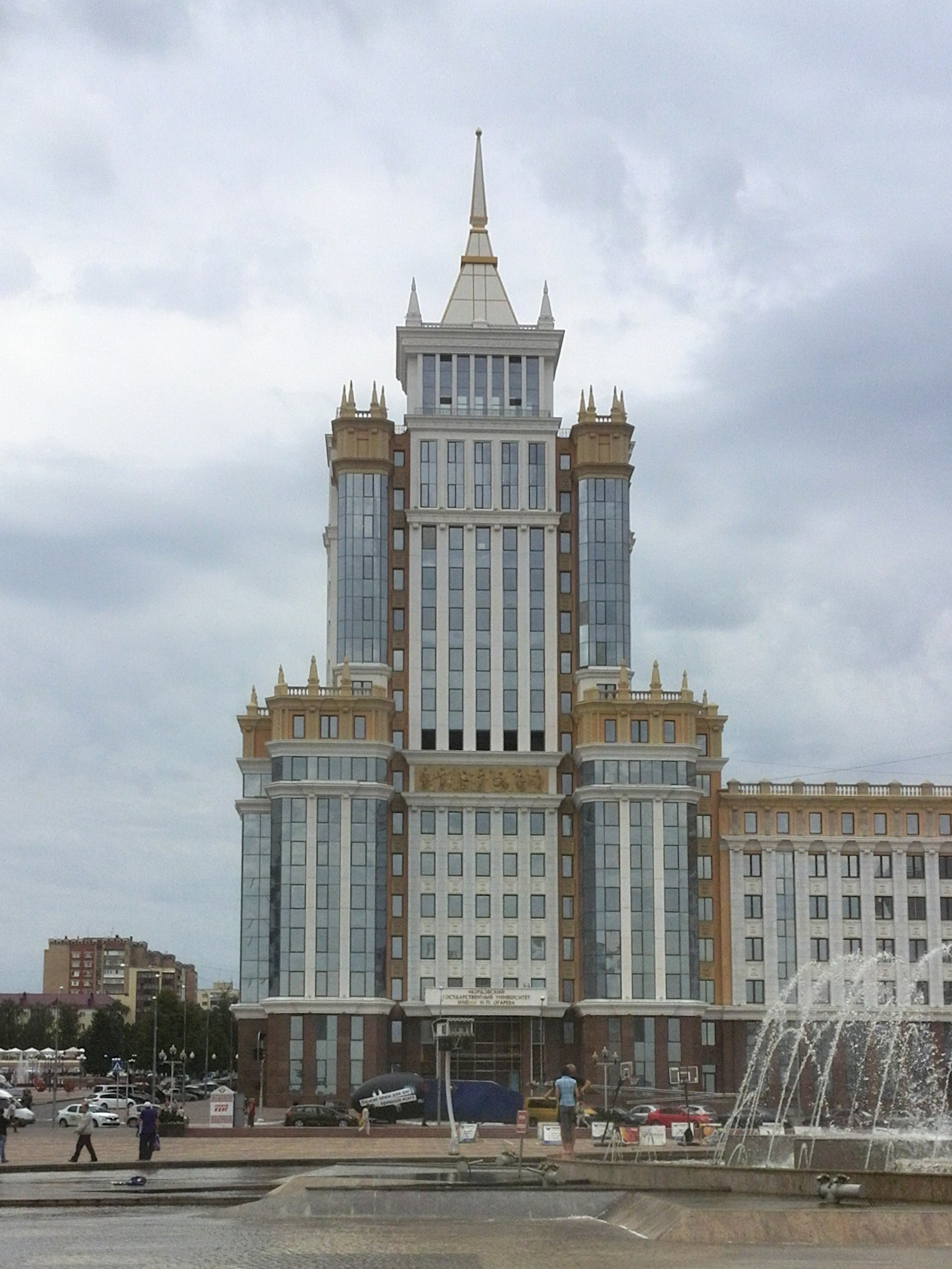 Main building of the Mordovia State University, Saransk, Russia